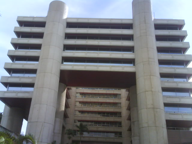 Central Bank of Barbados Building, Bridgetown, St. Michael, Barbados.